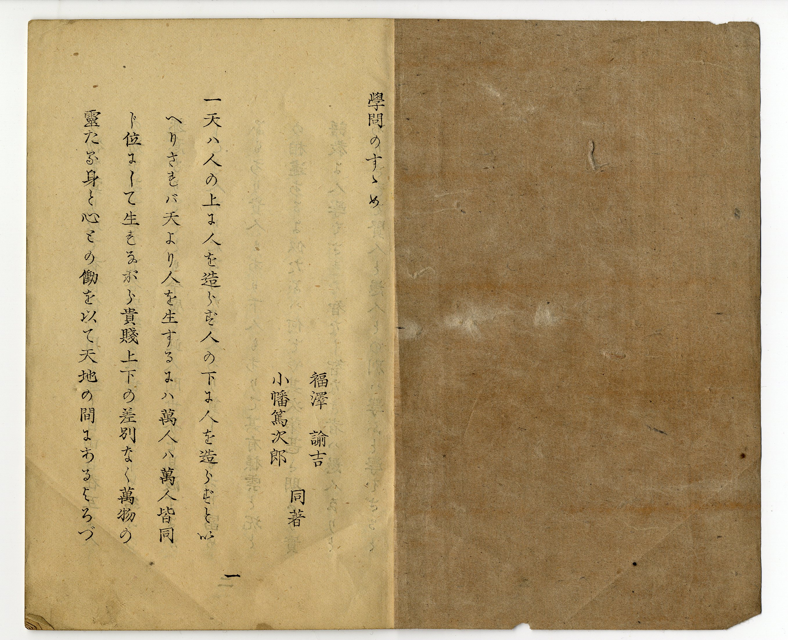 Page 1 of the first edition of "An Encouragement of Learning" (Gakumon no susume). This edition was written by Fukuzawa Yukichi and Obata Tokujirō.